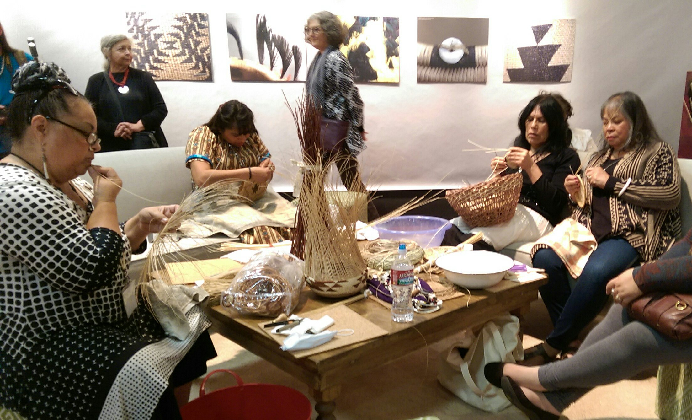 A group of Native American basketweavers working in San Rafael, California. Photo by Jim Heaphy.